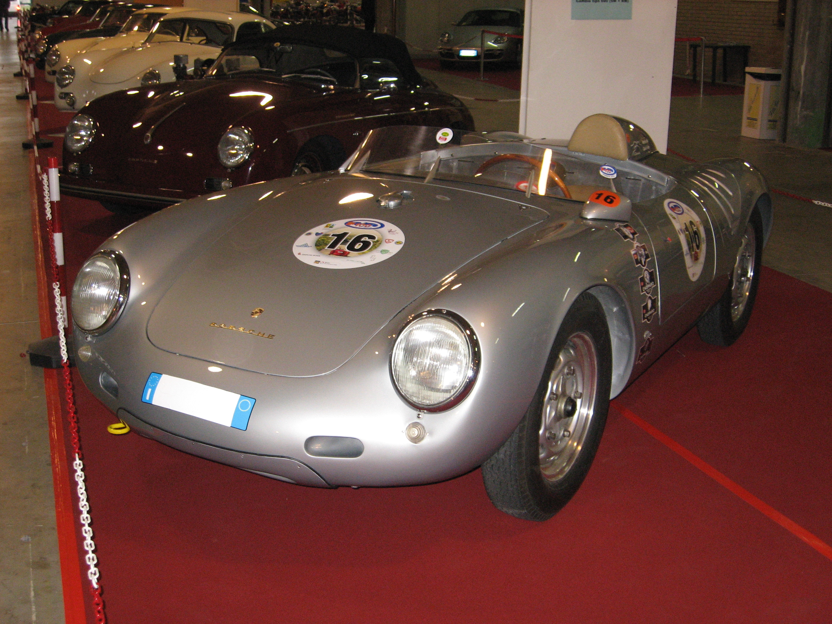 Subject:Porsche 550 Spyder Author:Luc106 Date:November 24th, 2007 Event:Marke-Retrò 2007 Place/Country: Cesena (FC), Italy I release all rights in the public domain.